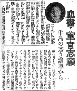 Park Chung-hee sent a pleading letter written in his blood to be granted a special favor beyond the age limit to take Manchu Army Academy entrance examination as Japanese.